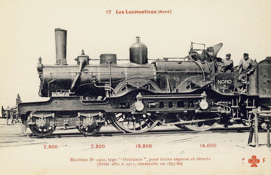 Locomotive Outrance 4-4-0 Nord 2.910 (class 2.861-2.911)